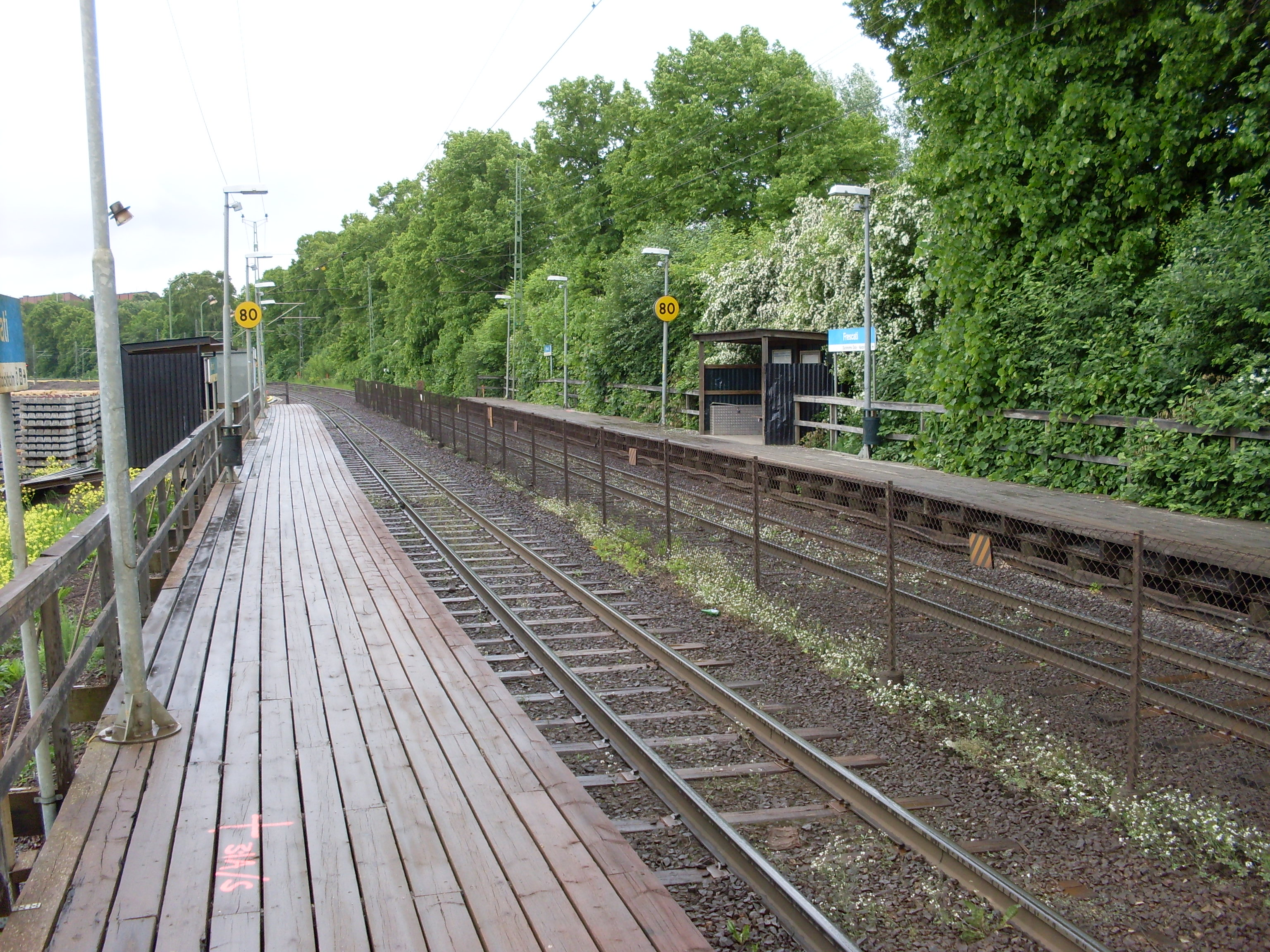 Narrow gauge railway stop "Frescati" in Stockholm, Sweden, while it was still in service (i.e. before June 14, 2009).